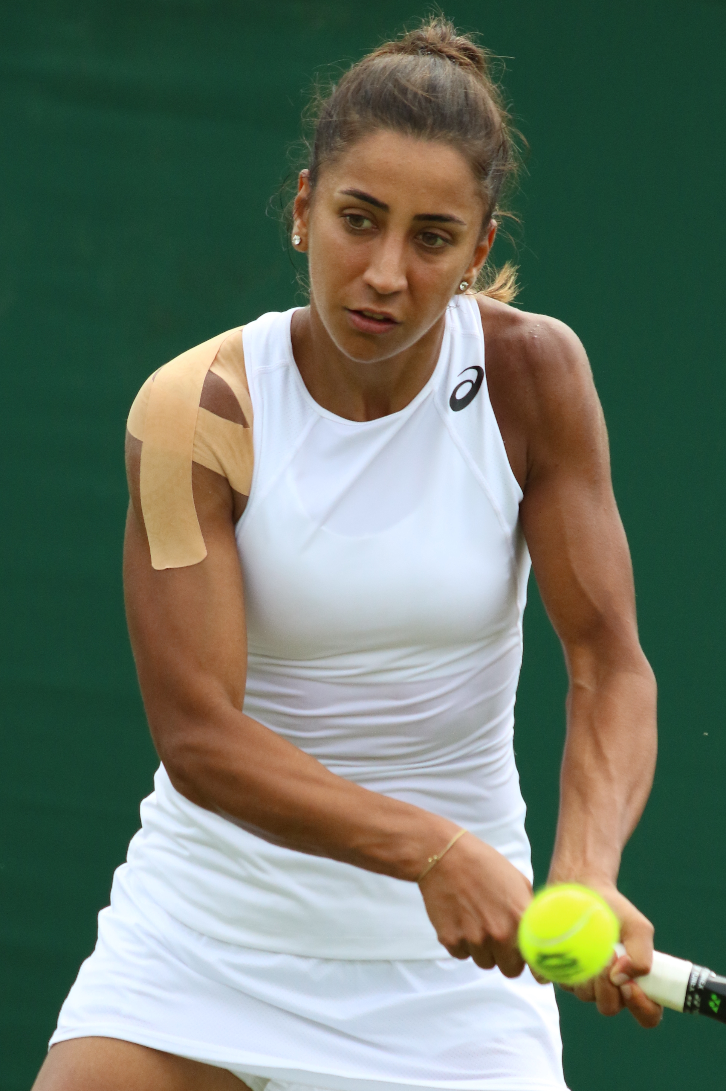 2019 Wimbledon Qualifying Tournament.